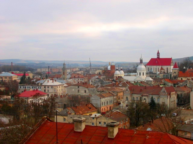 Panorama over Berezhany, western Ukraine